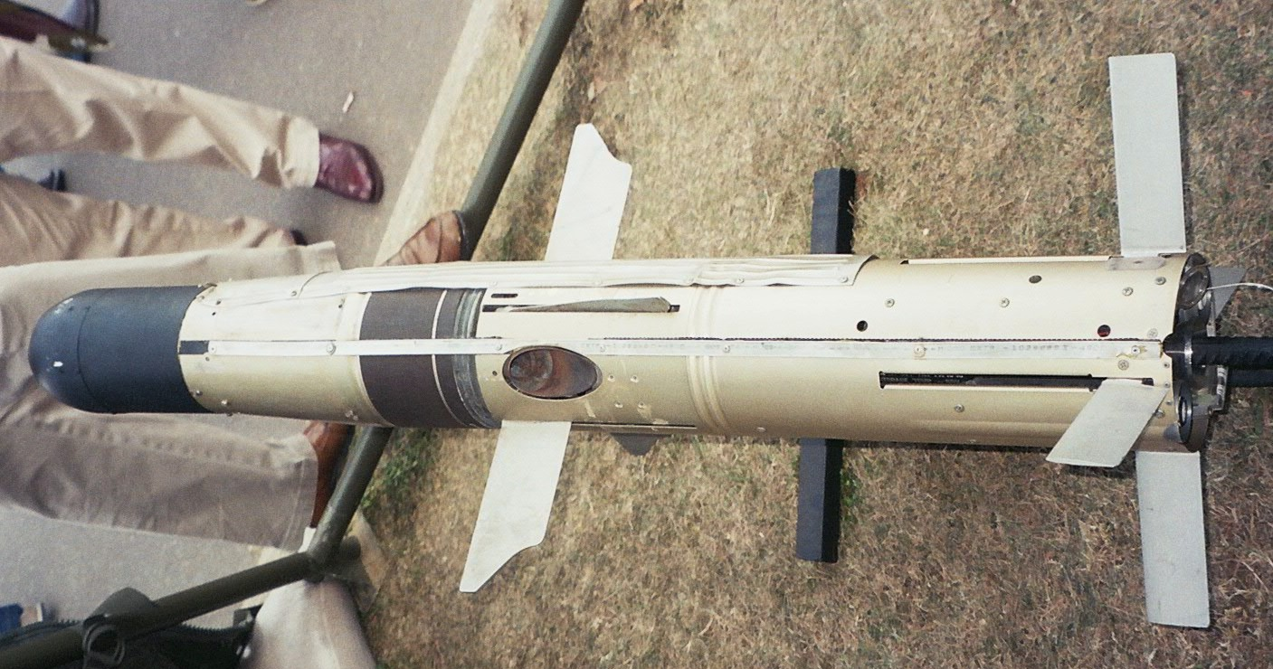 ERYX anti-tank missile, Nation/Defense days, Esplanade des Invalides, Paris, France, September 24-25, 2005 This appears to be a TOW missile NOT an ERYX - the ERYX has entirely different fins, and a more rounded "fat" warhead.